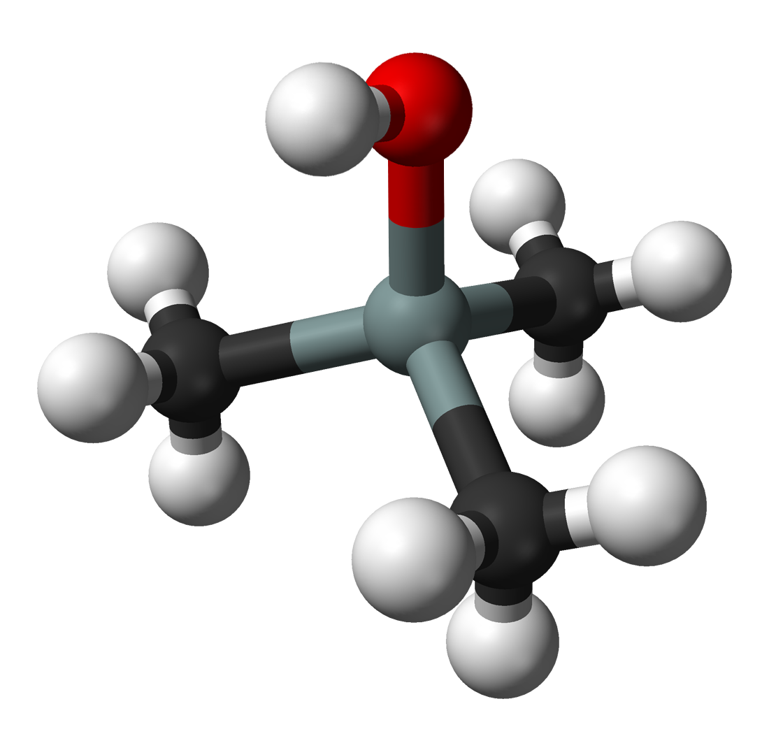 Ball-and-stick model of the trimethylsilanol molecule.